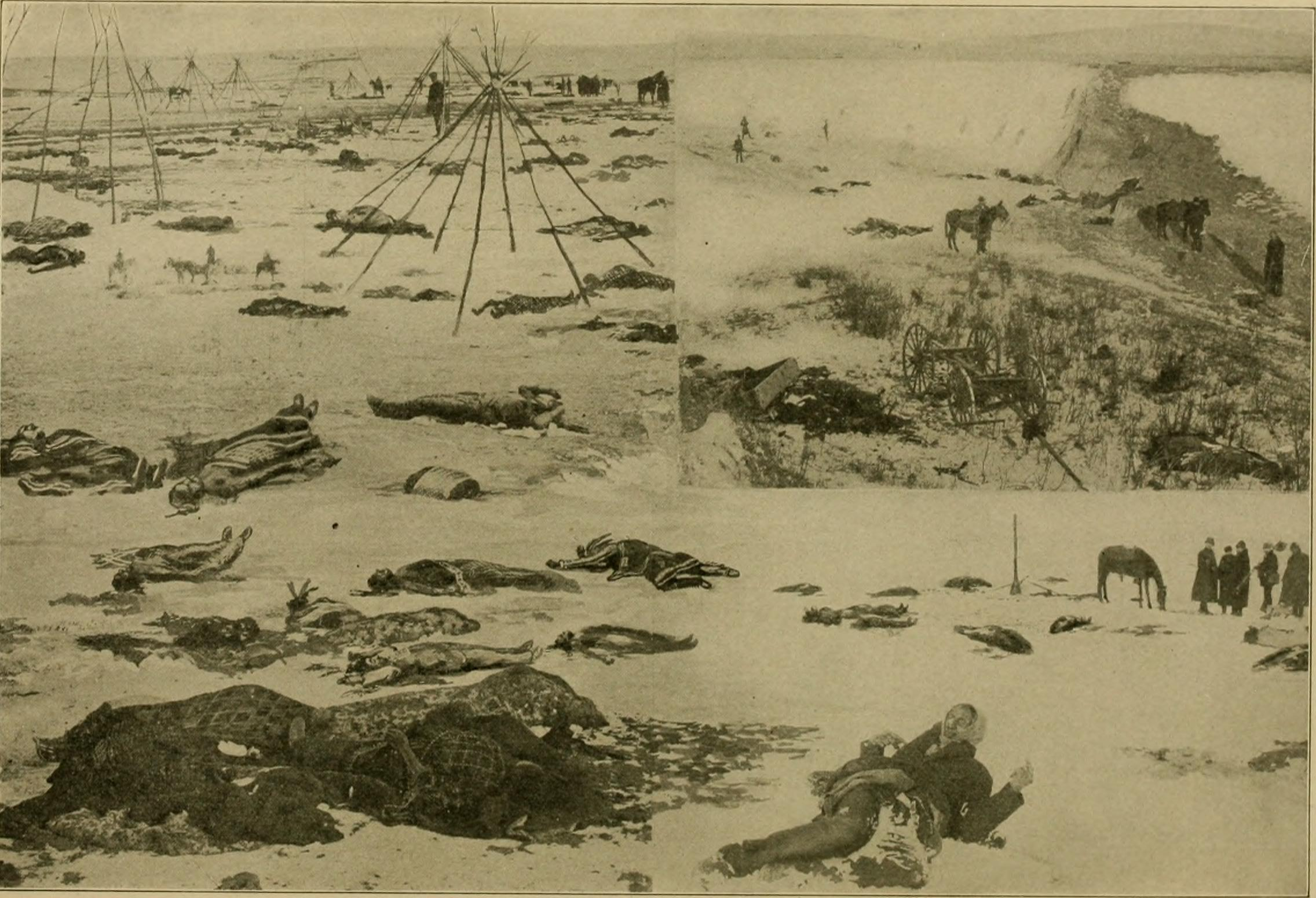 Battle of Wounded Knee – from special photographs: In the foreground is the pile of dead Indians underwhich two Indian baby girls were found Wednesday who had been there since Monday, a blizzard raging all the time. These lives were saved. Title: A thrilling and truthful history of the pony express; or, Blazing the westward way, and other sketches and incidents of those stirring times Year: 1908 (1900s) Authors: Visscher, William Lightfoot, 1842-1924 John Davis Batchelder Collection (Library of Congress) DLC Subjects: Pony express Frontier and pioneer life Publisher: Chicago, Rand, McNally & co Text Appearing Before Image: Gen. Tony Forsyth Text Appearing After Image: THE BEGINNING OF THE END 91 influence of some sort of hypnotismwhen prophecies of earthquakes anddrouglit were being strangely ful-filled, a superior genius of Washing-ton stepped into the thick of thetrouble and brought about a crisis.The agent in charge of the PineRidge reservation was ordered, withfourteen Indian police, up to the campof a gentleman named White Bird tostop the dancing of five or sixhundred crazy warriors. He wasconfronted by a score of braves,armed with Winchester rifles, andmade to turn back to the agency.This, of course, was an act of rebel-lion. The report spread, the episodewas magnified into a successful bat-tle, and every pious Indian in Americacommenced dancing the Ghost Danceto the best of his ability. Thesettlers near the reservations packedup their traps and fled to the cities,and Kicking Bear, with Short Bulland a considerable following of enthu-siastic braves, under the venerableTwo Strike, High Pipe, and HighHawk, put on full uniforms of warpaint, and